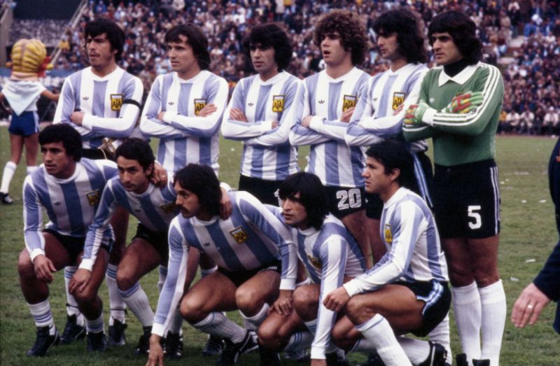 Argentina national football team during the 1978 FIFA World Cup. (up): Passarella, Bertoni, Olguín, Tarantini, Kempes, Fillol. (down): Gallego, Ardiles, Luque, Ortiz, Luis Galván.